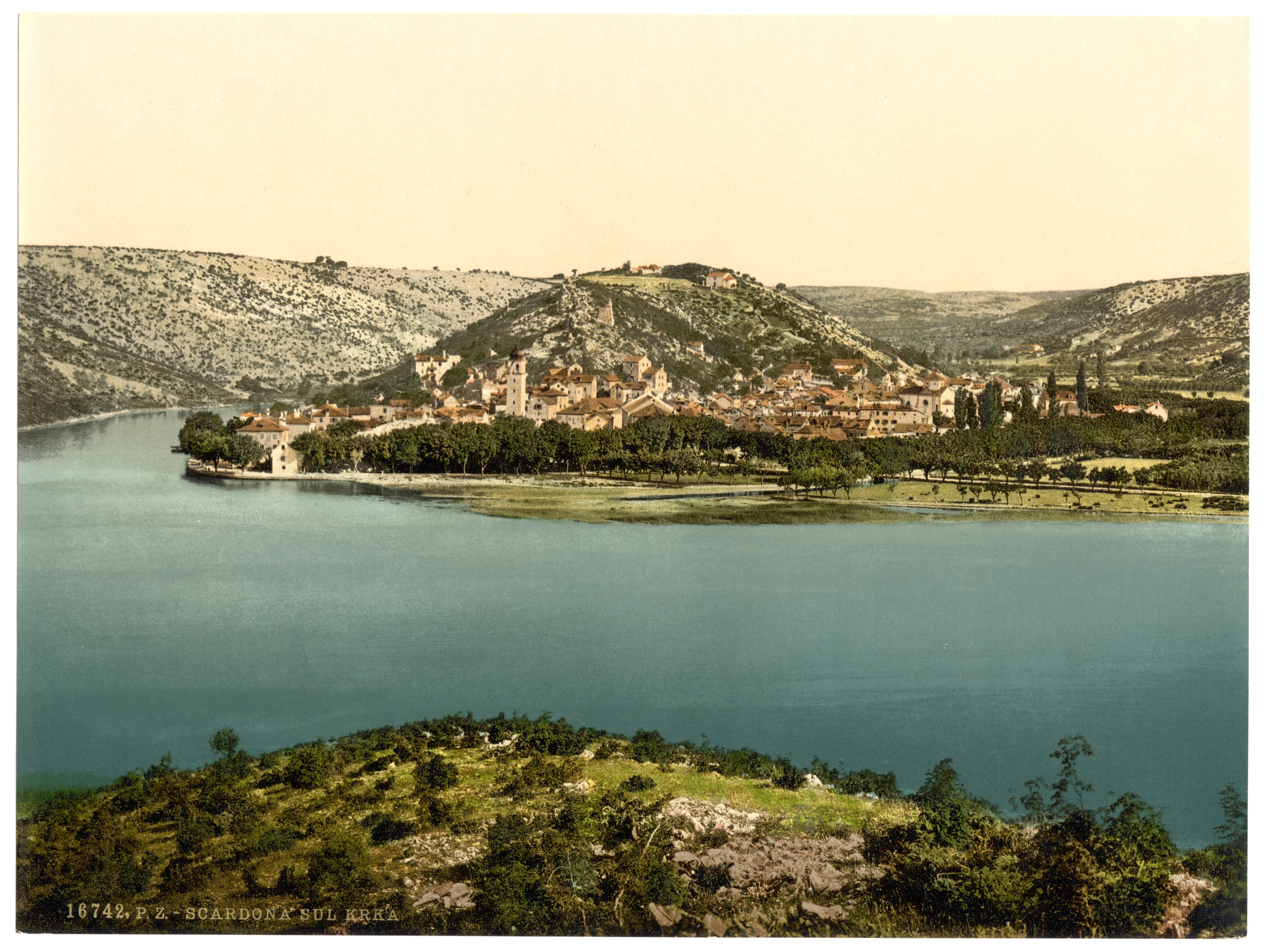 Forms part of: Views of the Austro-Hungarian Empire in the Photochrom print collection.; Title from the Detroit Publishing Co., Catalogue J-foreign section, Detroit, Mich. : Detroit Publishing Company, 1905.; Print no. "16742".